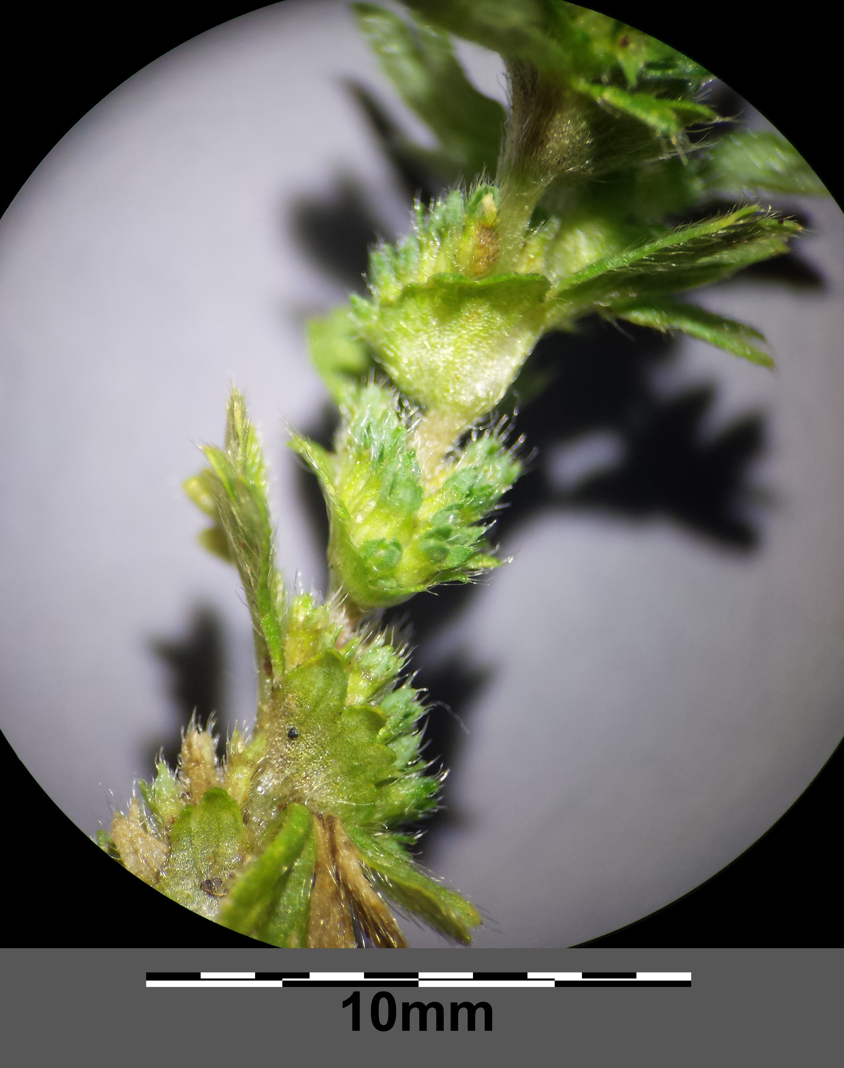 Stem with leaves, stipules and inflorescences Taxonym: Aphanes arvensis ss Fischer et al. EfÖLS 2008 ISBN 978-3-85474-187-9 Location: nearby Riebeis, Rappottenstein, district Zwettl, Lower Austria - ca. 760 m a.s.l. Habitat: border of a field